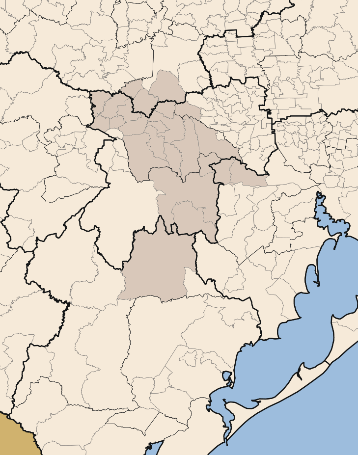 Valley of Rio Pardo